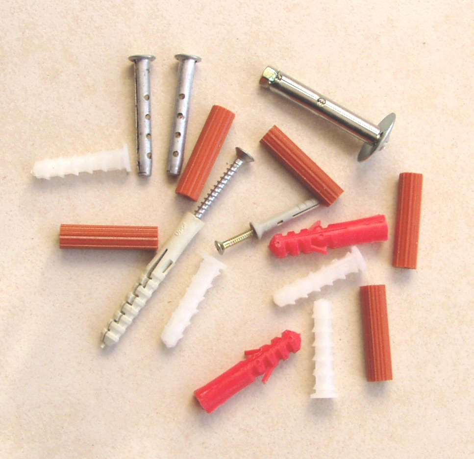 Plastic and metal dowels